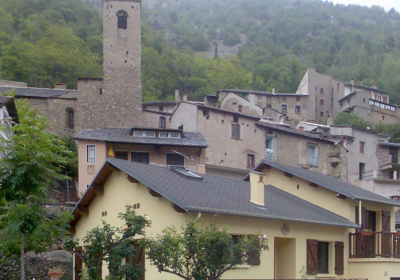 Church of Fontpedrosa